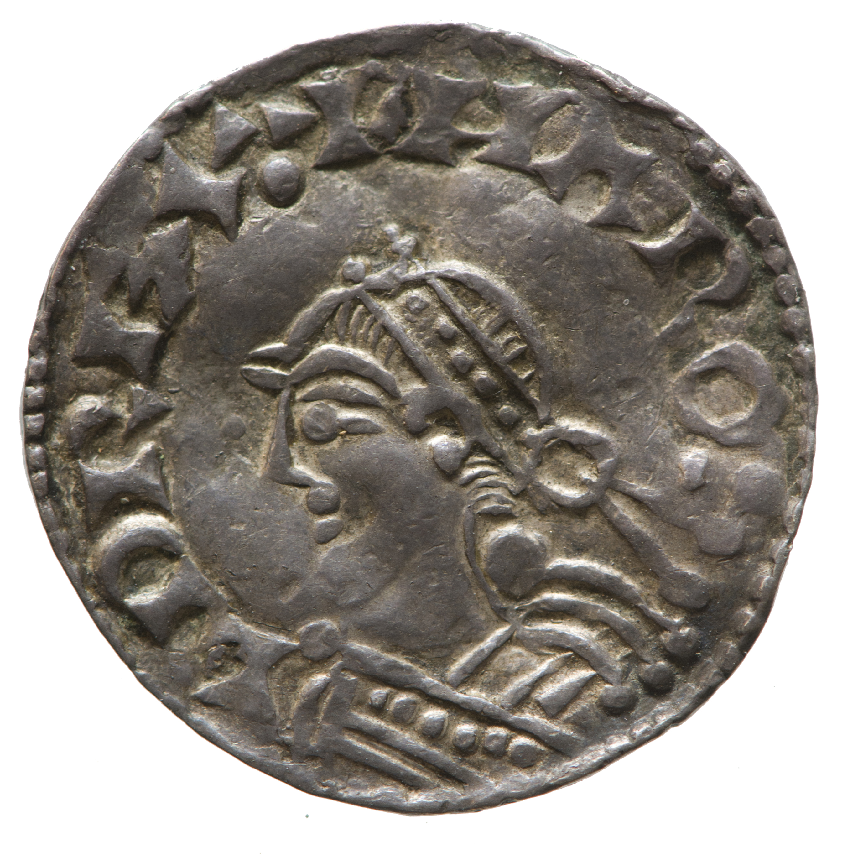 Obverse (front) of a silver penny of Harold_Harefoot Head facing left